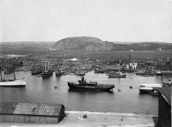 View of Hisingen from Gothenburg